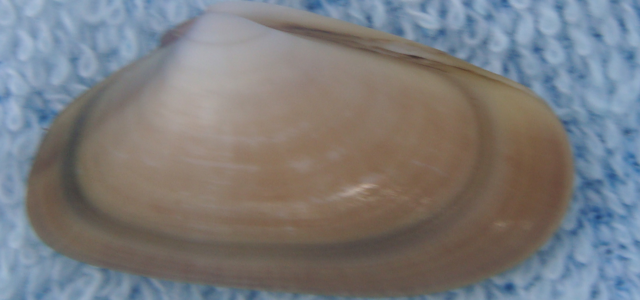 A mussel coming from a beach in Northern Greece.